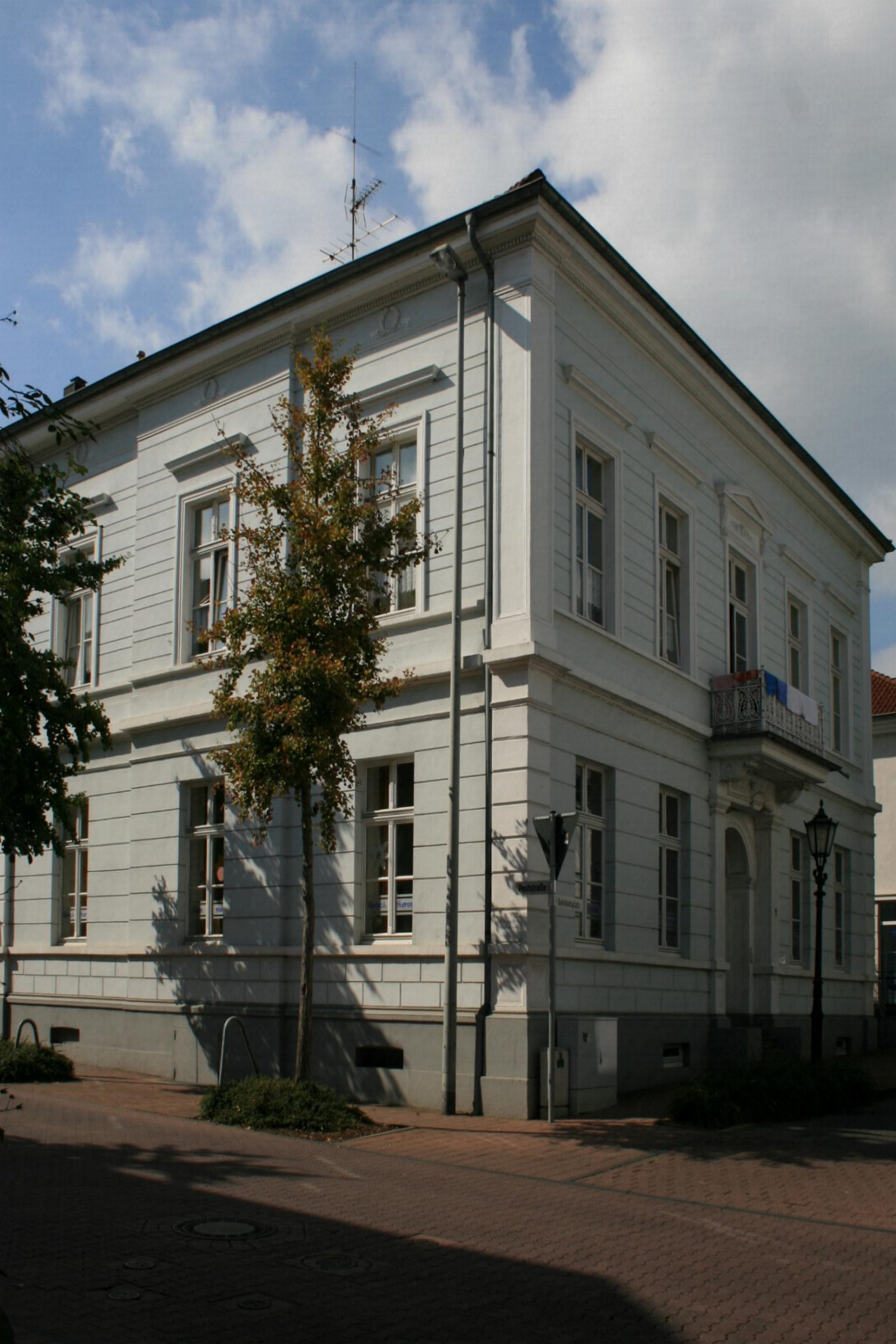 Cultural heritage monument No. B 023 in Mönchengladbach